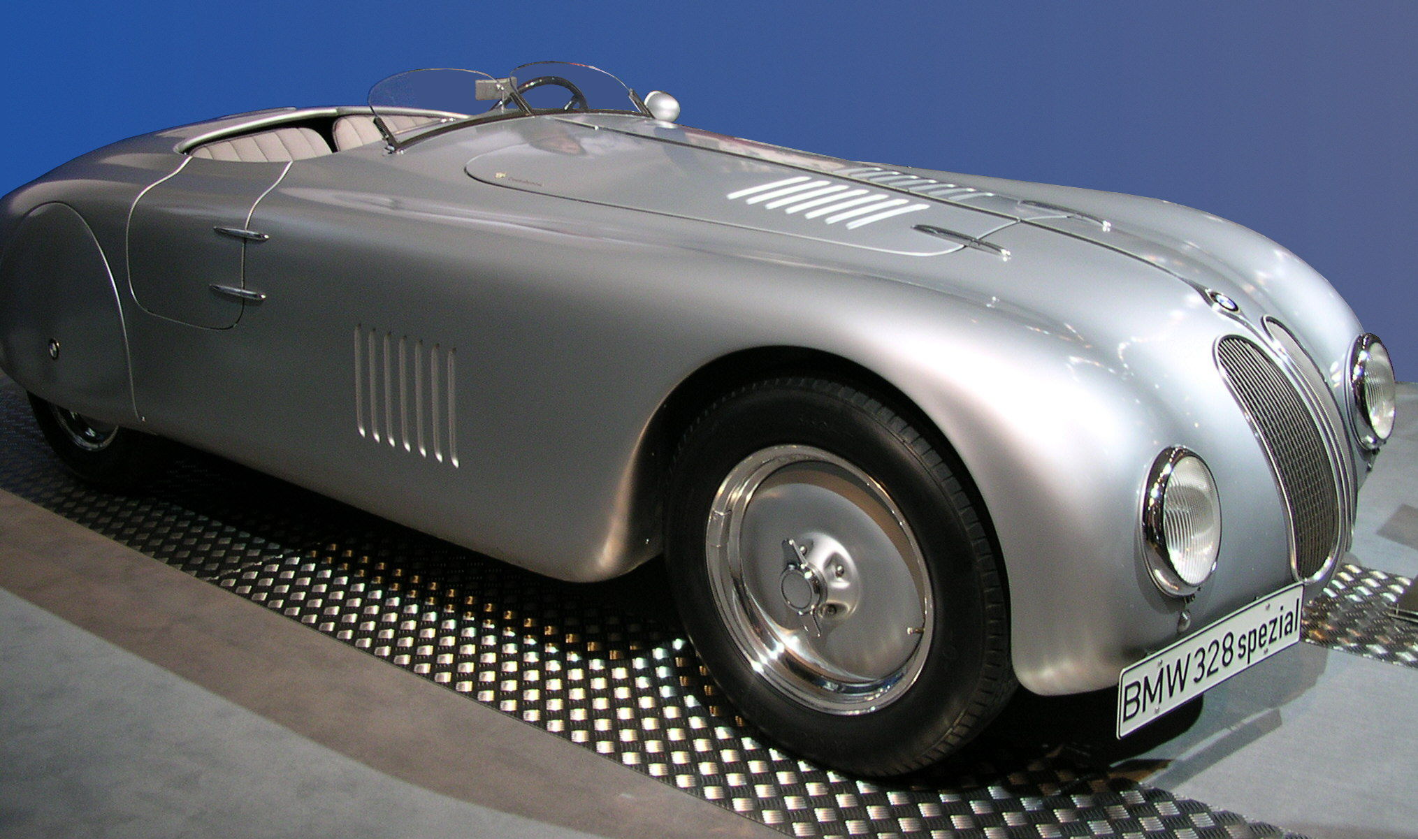 Essen Techno-Classica 2007, BMW 328